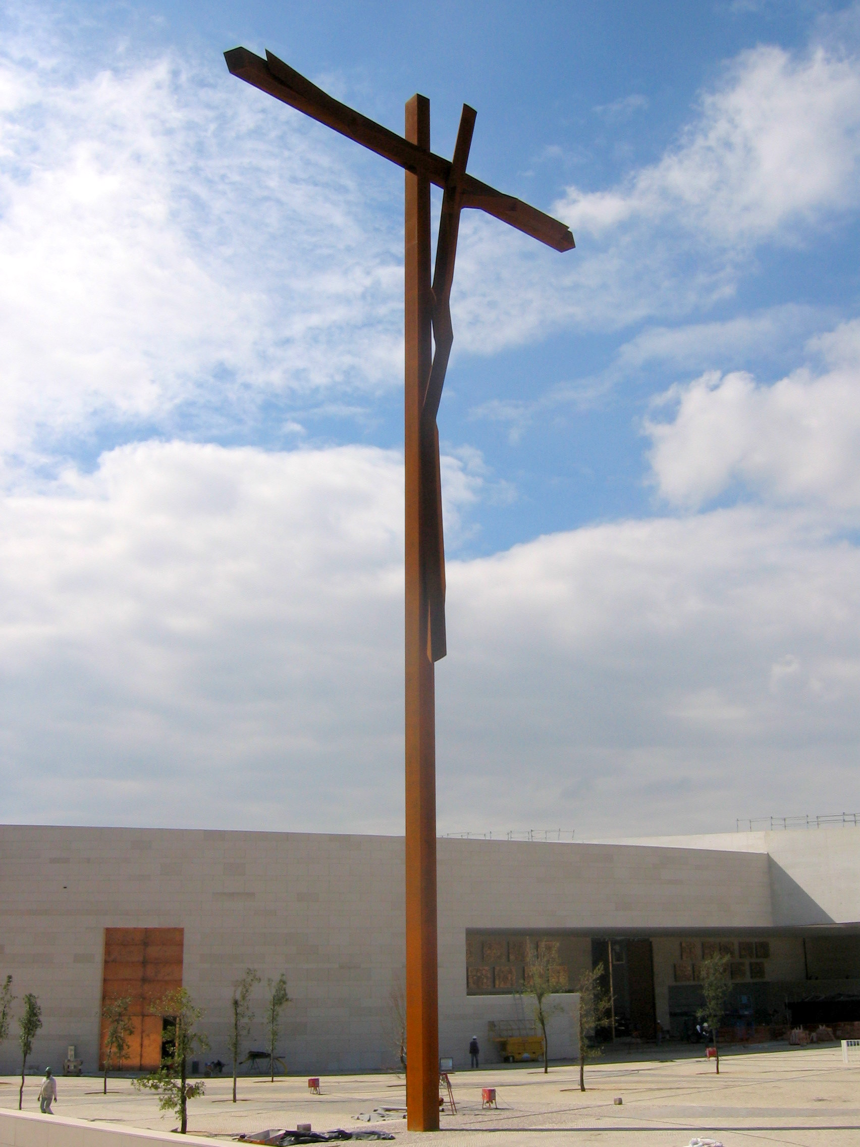 Crucifix in front of Igreja da Santissima Trindade, Fátima, Portugal